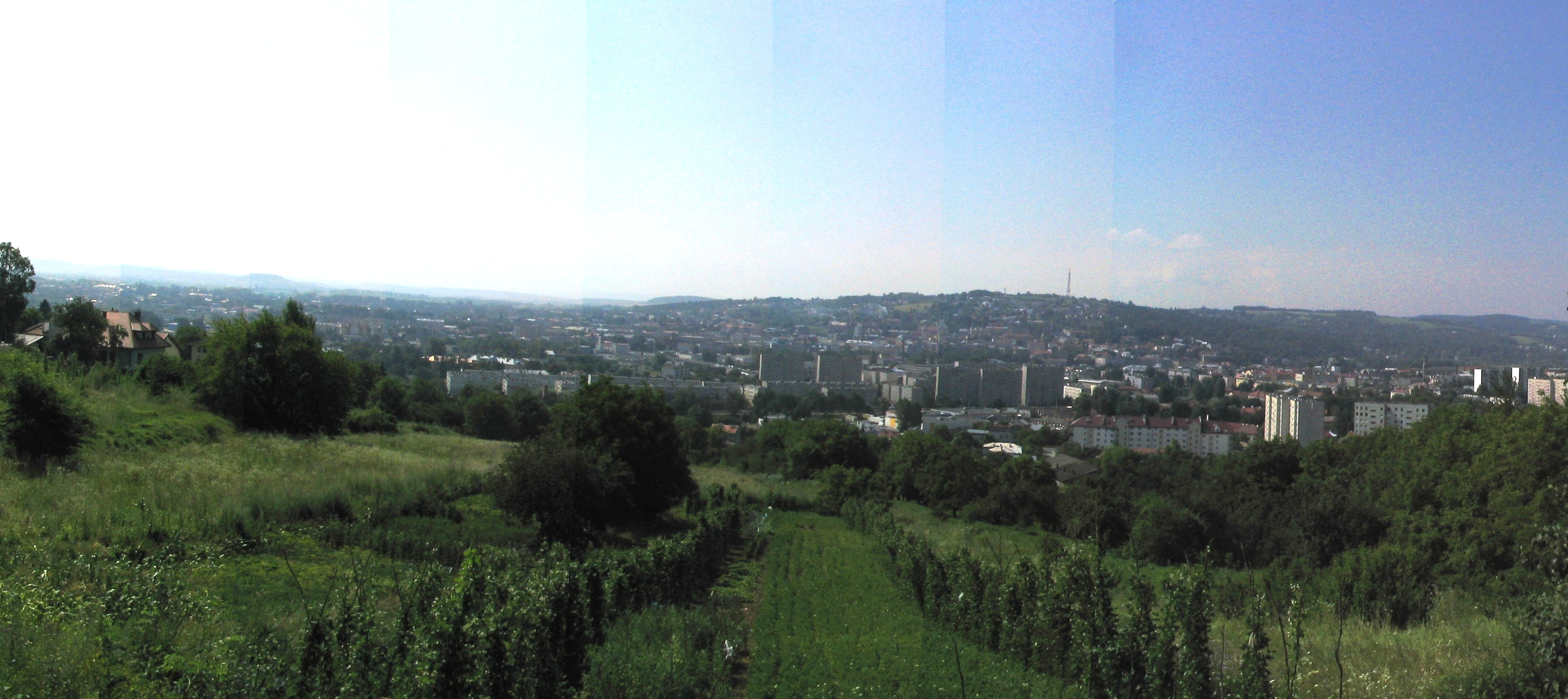 Panorama of Przemyśl, view from Winna Góra Author: Goku122